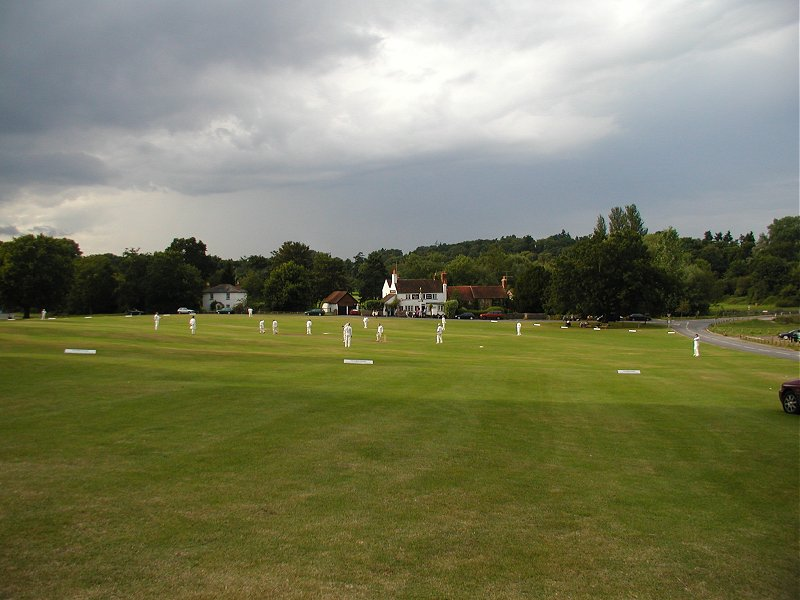 cricket on Tilford Green, Surrey, stormy skies